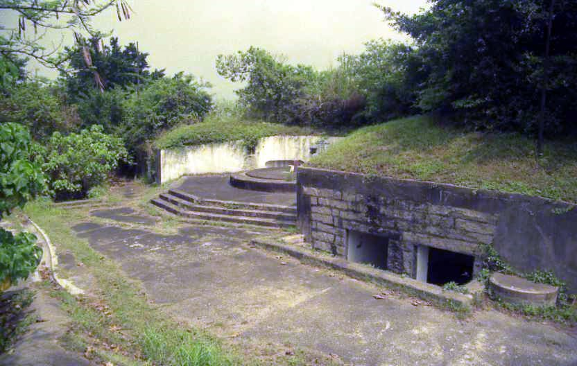 South_Shore_Gun_Battery at stonecutters island